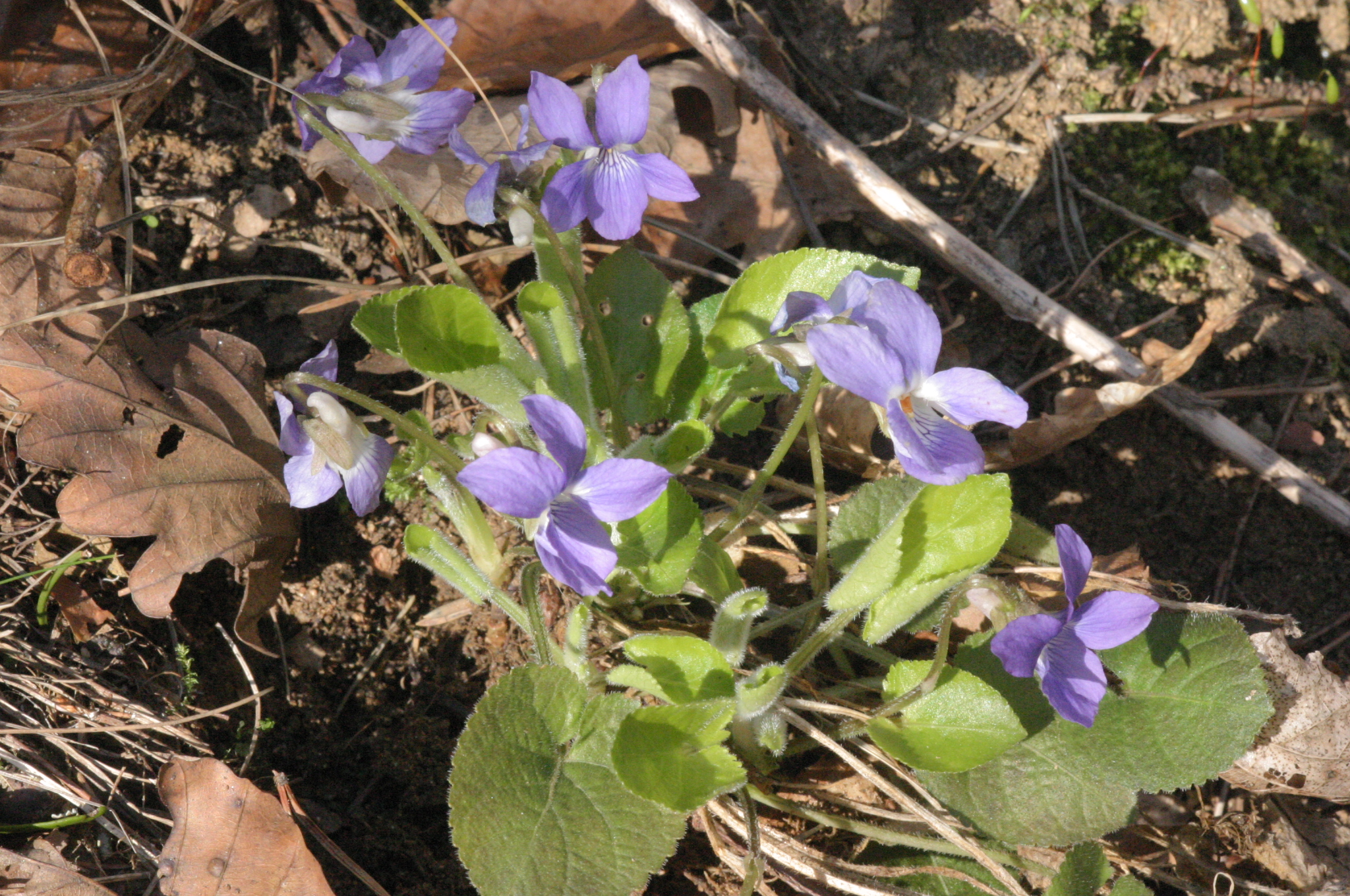 Viola collina